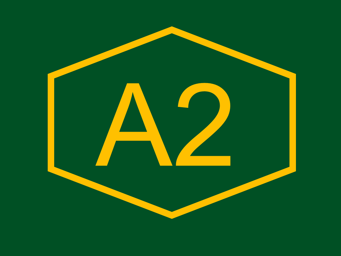 A2 Motorway Cyprus